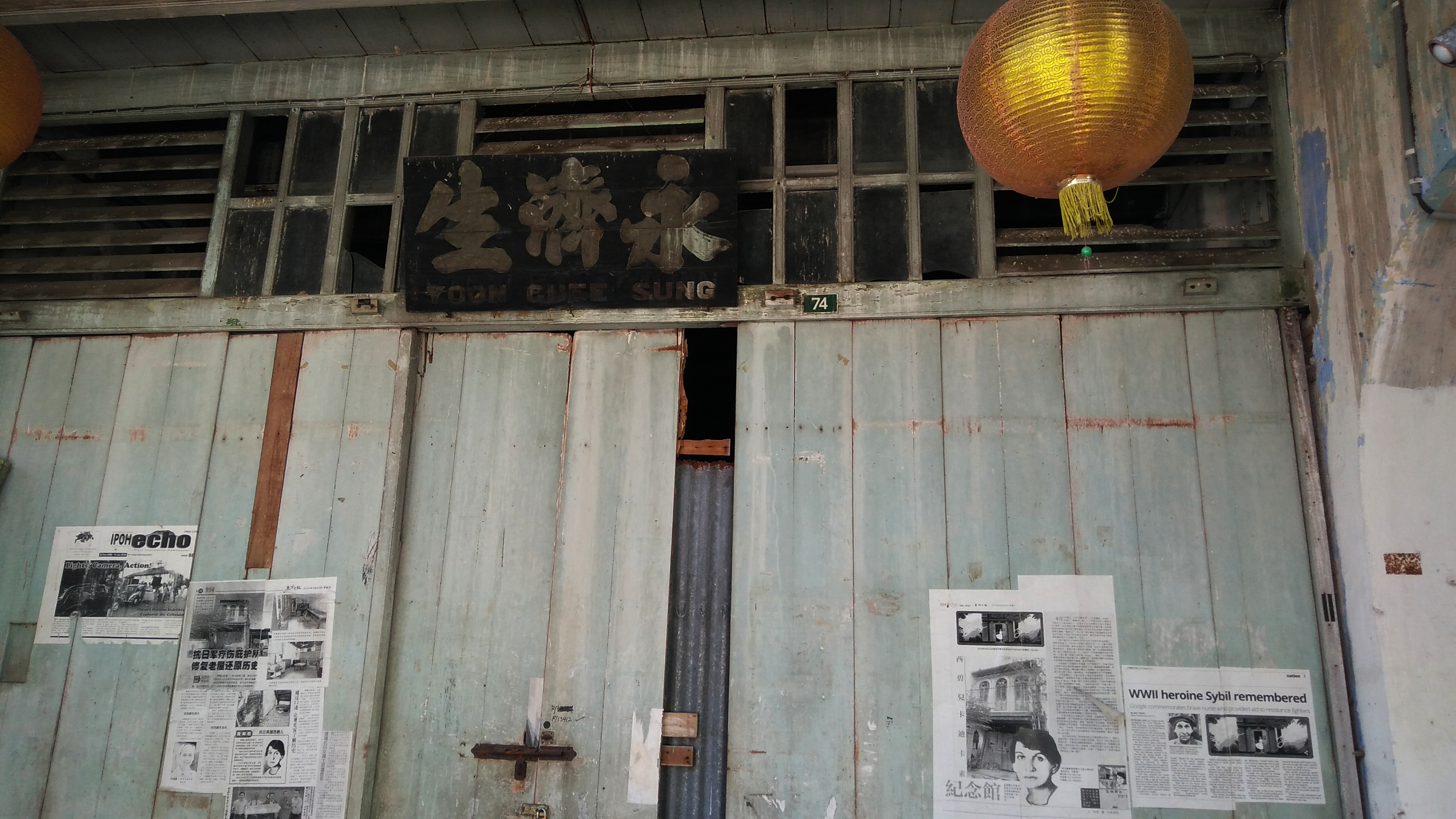 Syabil Kathigasu House